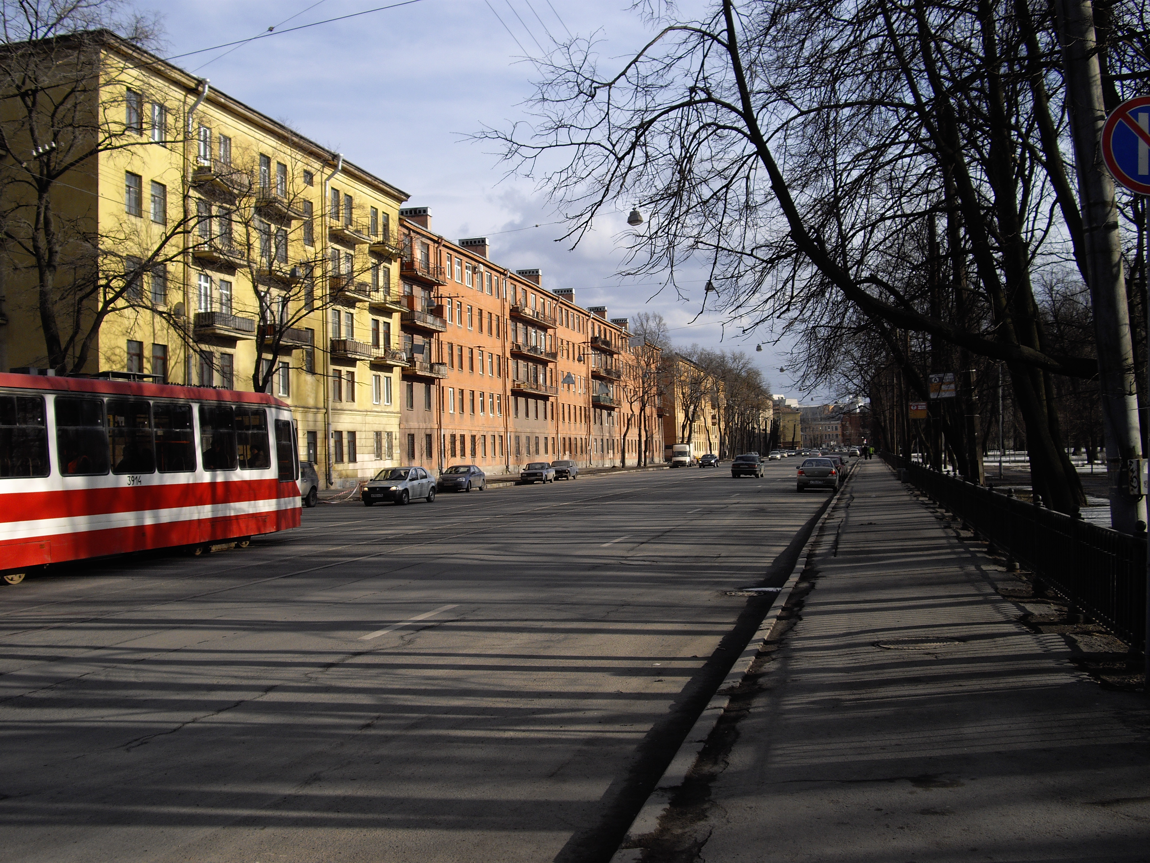 Vyazemsky Pereulok (Vyazemsky Lane) in Saint Petersburg